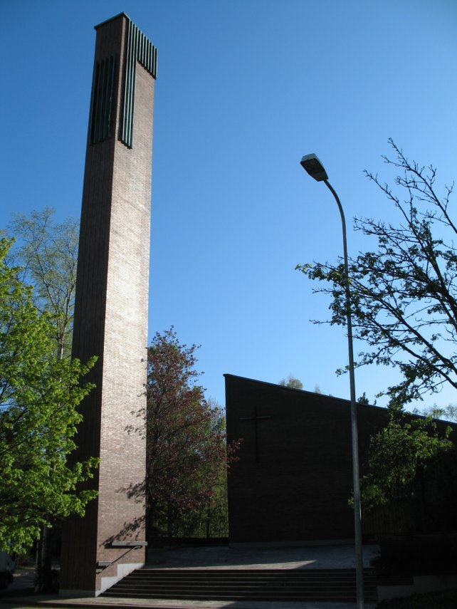 Hakavuori Church, situated in the Pohjois-Haaga district of Helsinki, Finland.